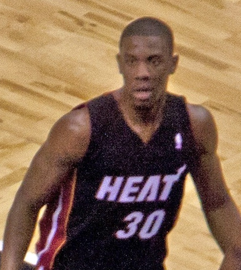 Norris Cole of the Miami Heat in an NBA preseason game against the Orlando Magic